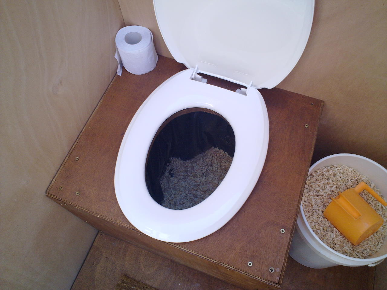 Composting toilet using sawdust, made by Way of Nature, Israel.